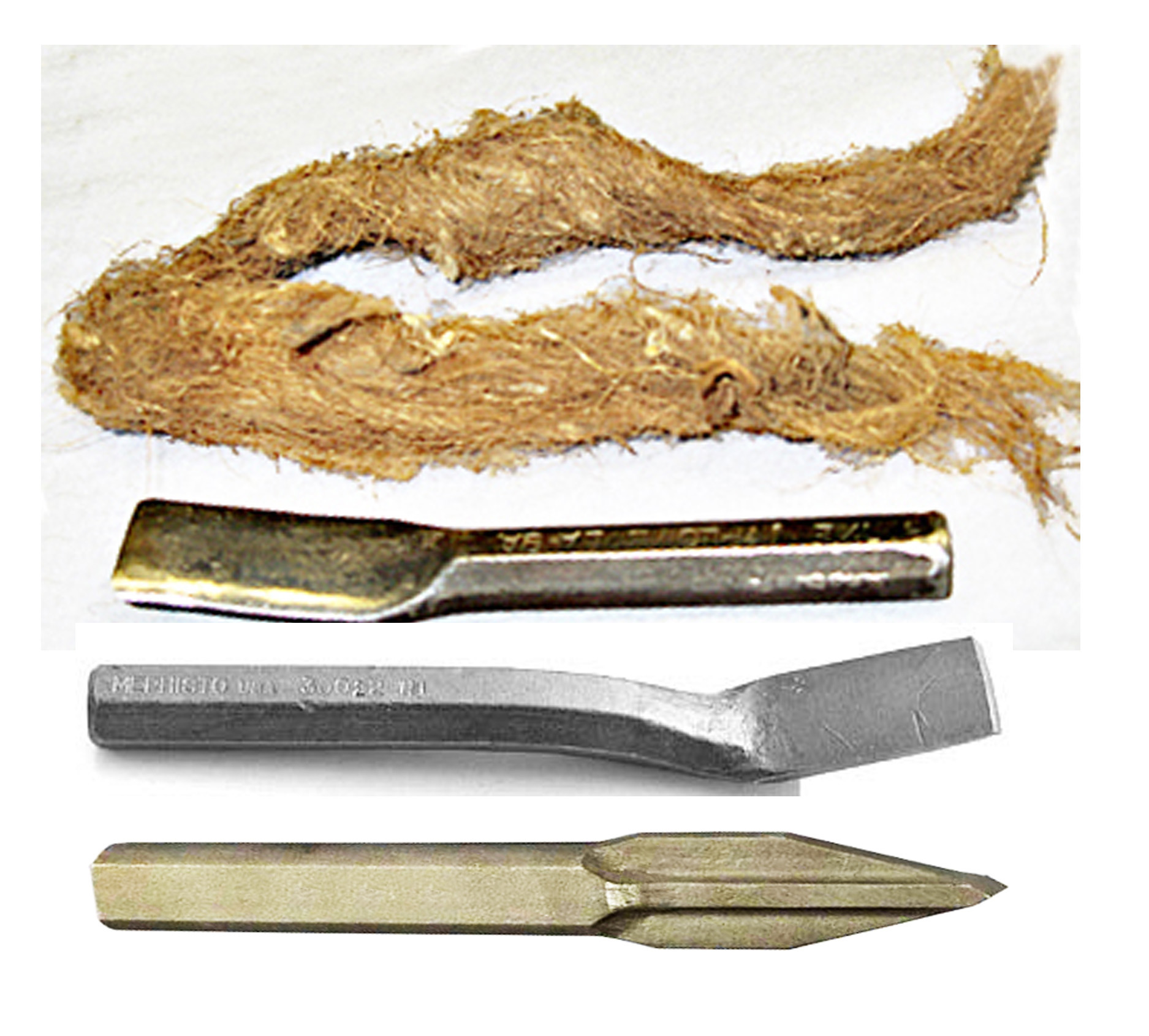 Tools for lead joint on cast iron pipe.